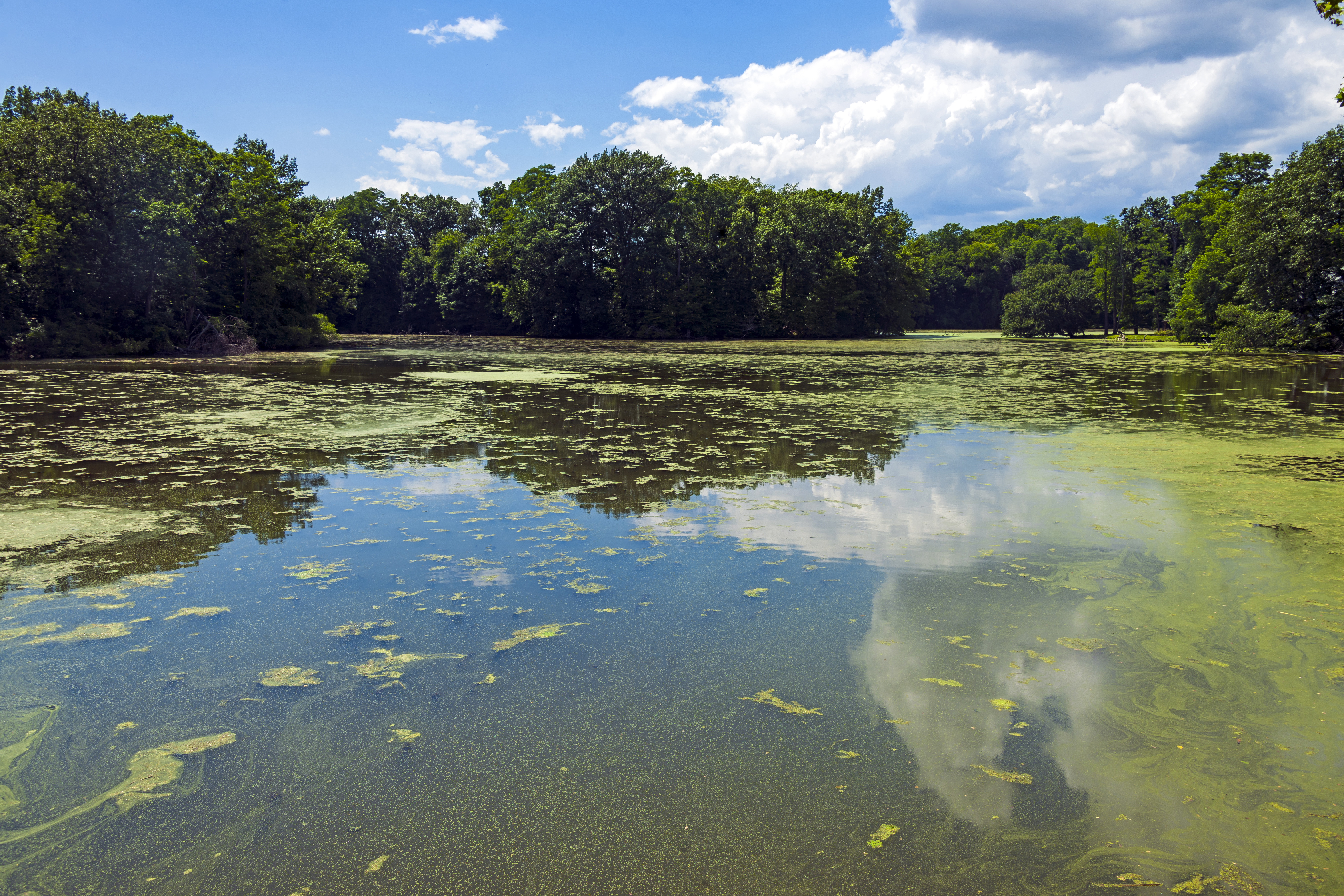 Lake created by dam along the Saw Kill in the town of Red Hook, NY, USA, seen from bridge along Mill Road.